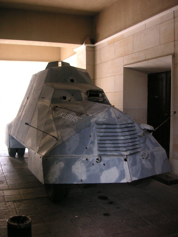 made during a summer day in Warsaw; Polish WWII APC/AC Kubuś, the restored original